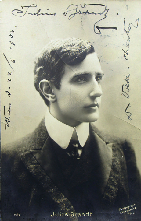 Portrait of Austrian actor Julius Brandt (1873-1949)